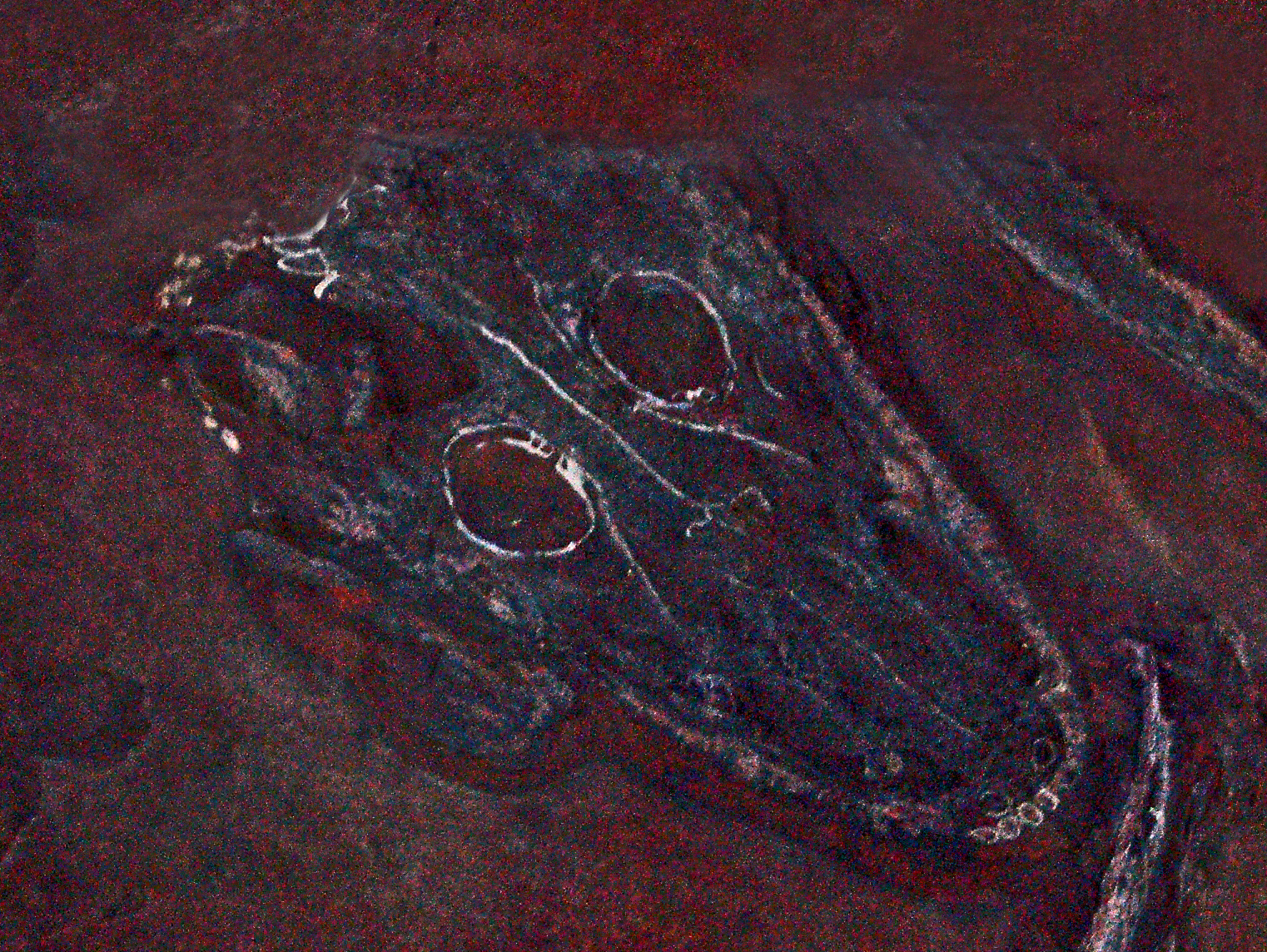 Cheliderpeton varyi from Broumov (Czeck Republic) at the National Museum (Prague)